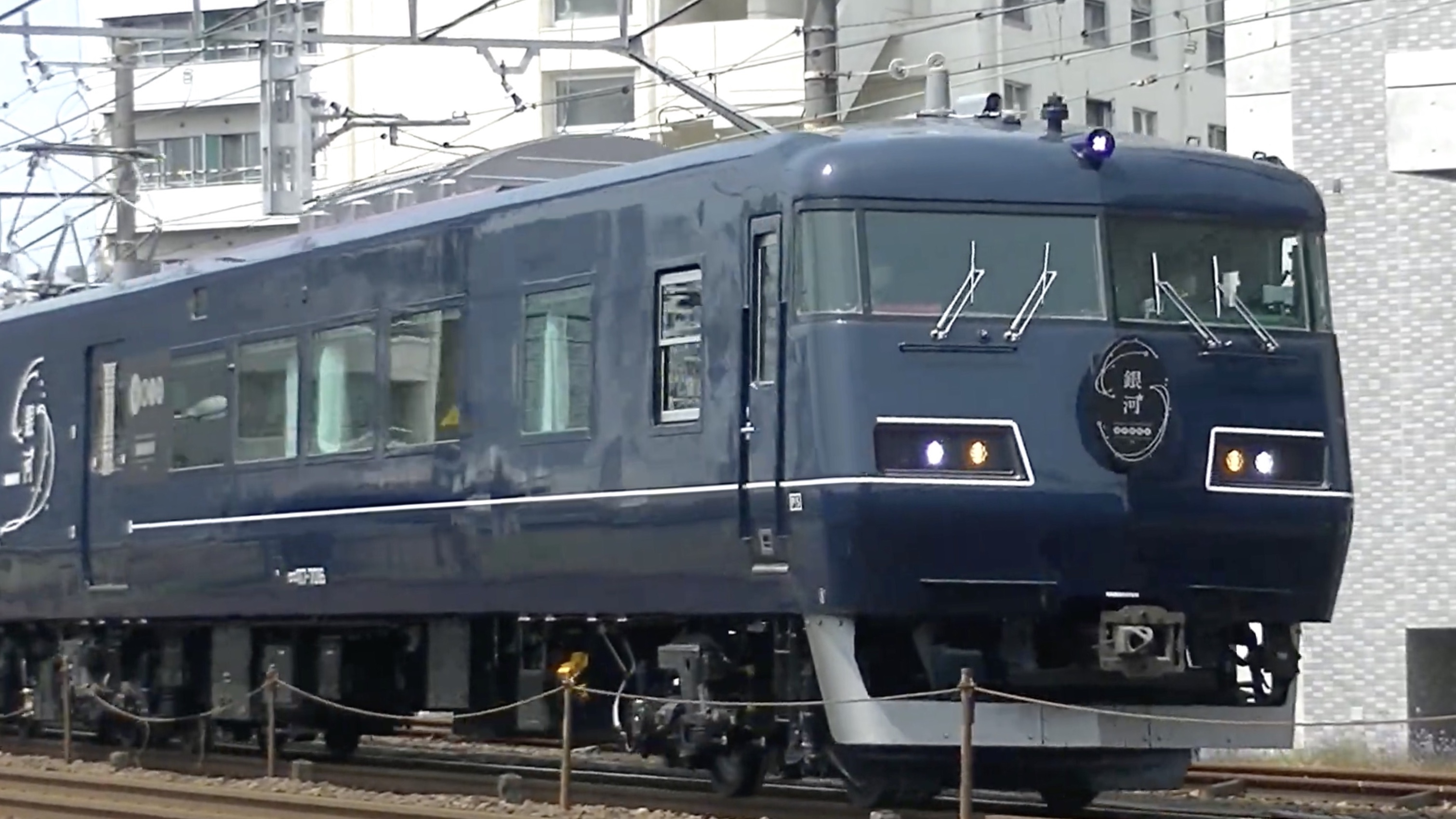 Luxury train West Express Ginga conducting staff training at Hiroshima Station, April 16, 2020.